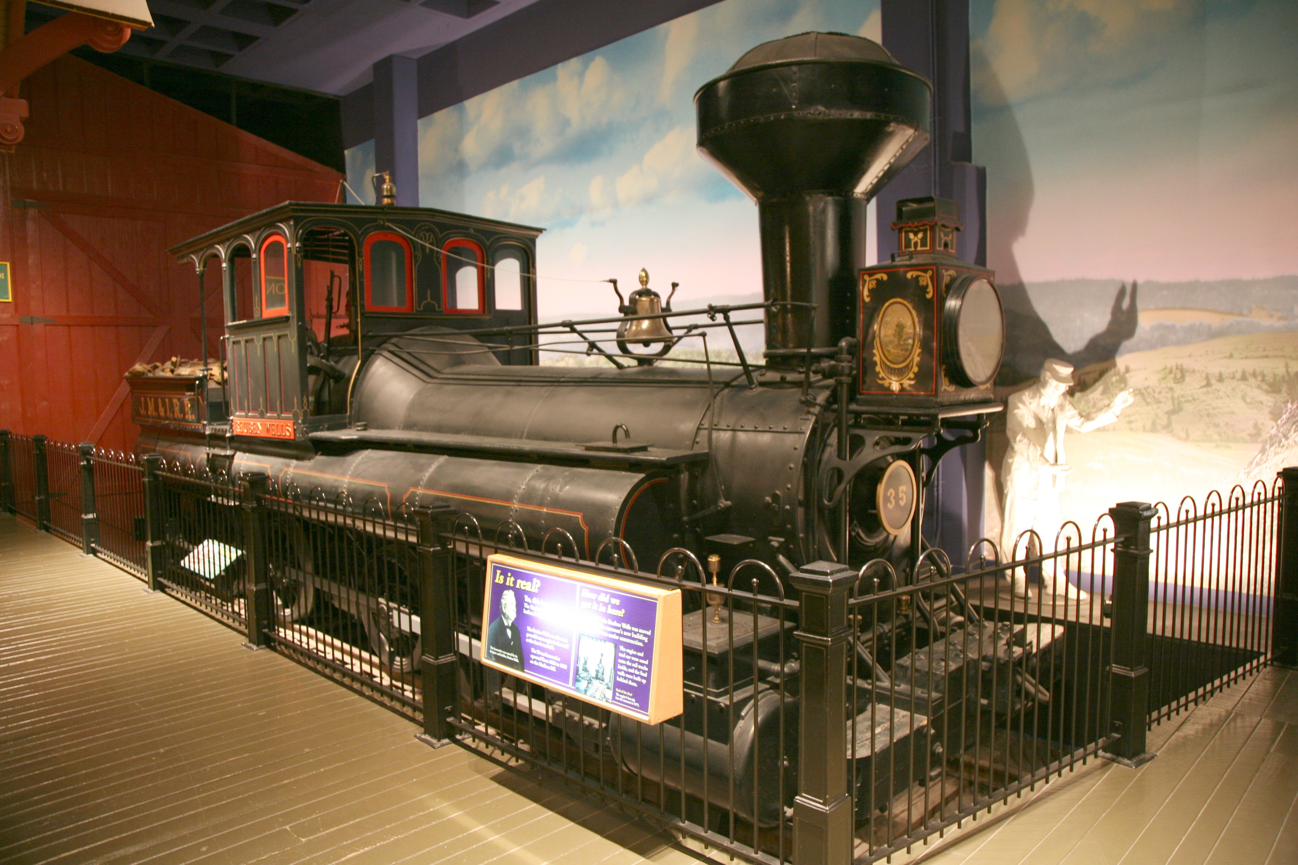 Reuben Wells steam engine. The Children's Museum of Indianapolis.